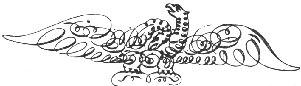 Calligraphy of a Wallachian bird which is simultaneously the double-headed Cantacuzino eagle. From a copy of the Cantacuzino Genealogy commissioned by Caimacam Constantin G. Cantacuzino.